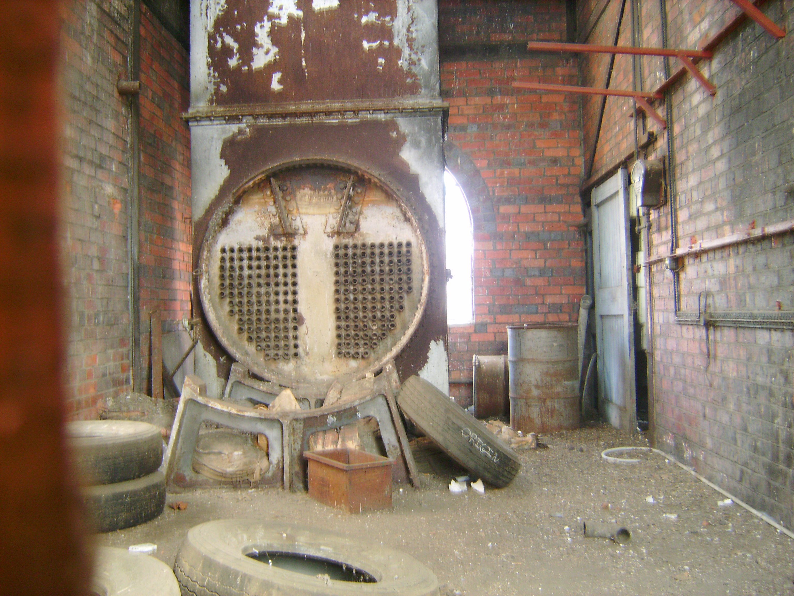 One of the boilers in the vertical retort building (Cook With Gas building) with the firebox removed. Taken March 2011